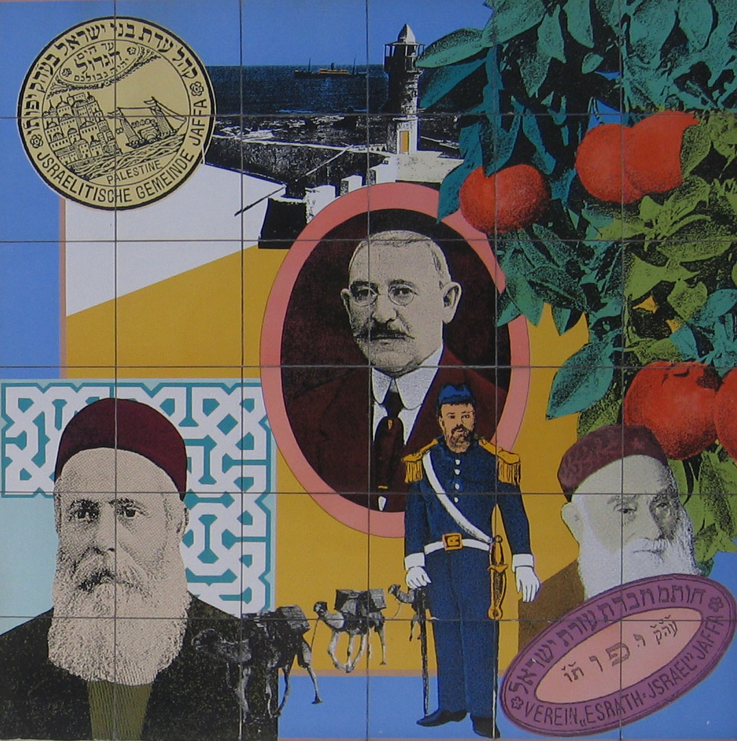 Wall Painting in Suzan Dalal Center, Tel Aviv-Yaffo by David Tartakover (1988-9)